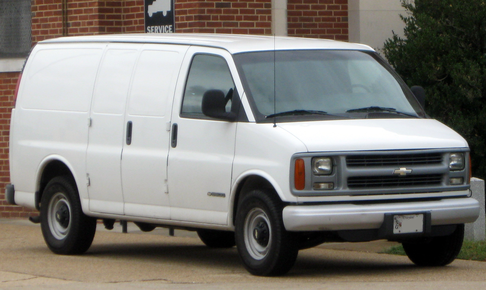 1996-2002 Chevrolet Express photographed in College Park, Maryland, USA.